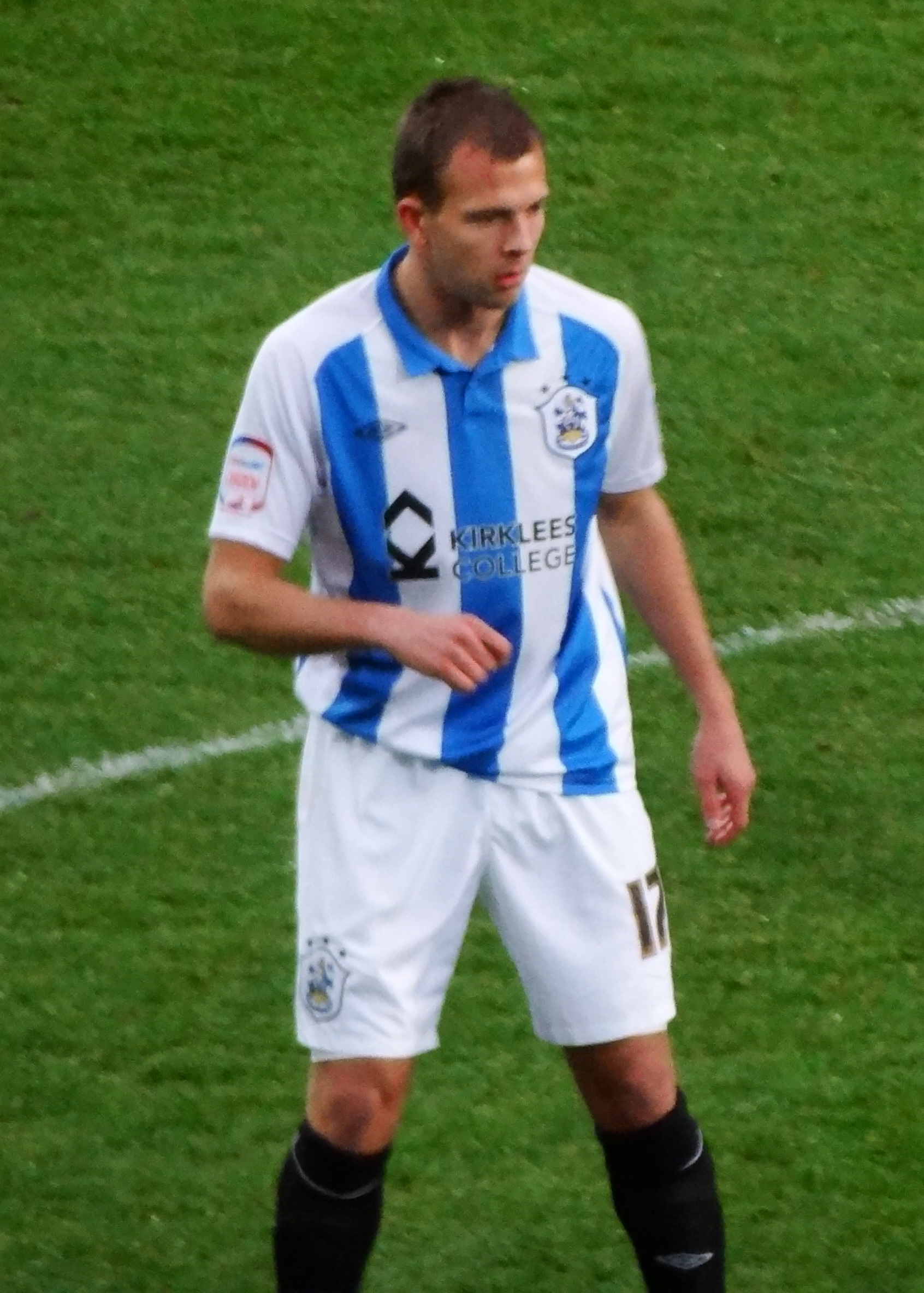 Jordan Rhodes with the shirt of Huddersfield Town (1)